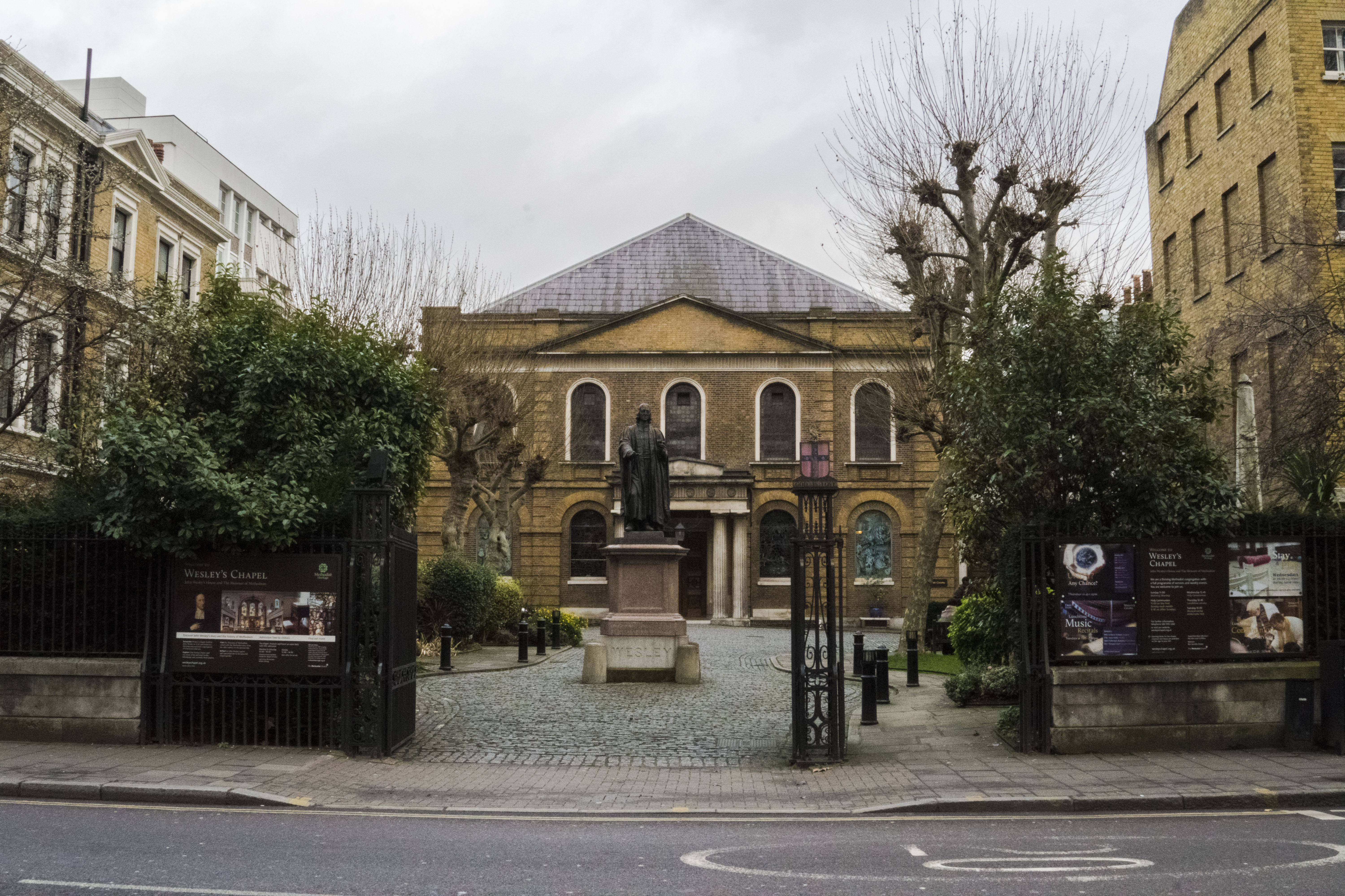 The entrance gates of Wesley's Chapel, London